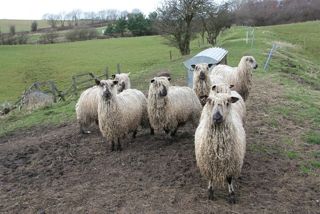 Track of Railway, from Ingleby Incline at Bank Foot Farm, near to Ingleby Greenhow, North Yorkshire, Great Britain. Now a feeding point for a small flock of Teeswater sheep, the raised bed of the old railway line can clearly be seen heading towards the trees in the background. The line originally joined what is now the Esk Valley at nearby Battersby Junction.